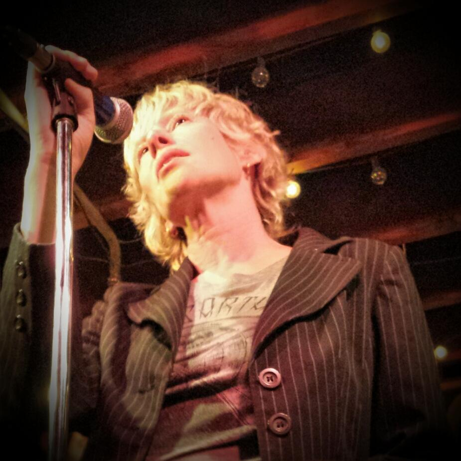 Sally Timms performing with the Mekons at the Hideout, Chicago, IL on 2015.07.13